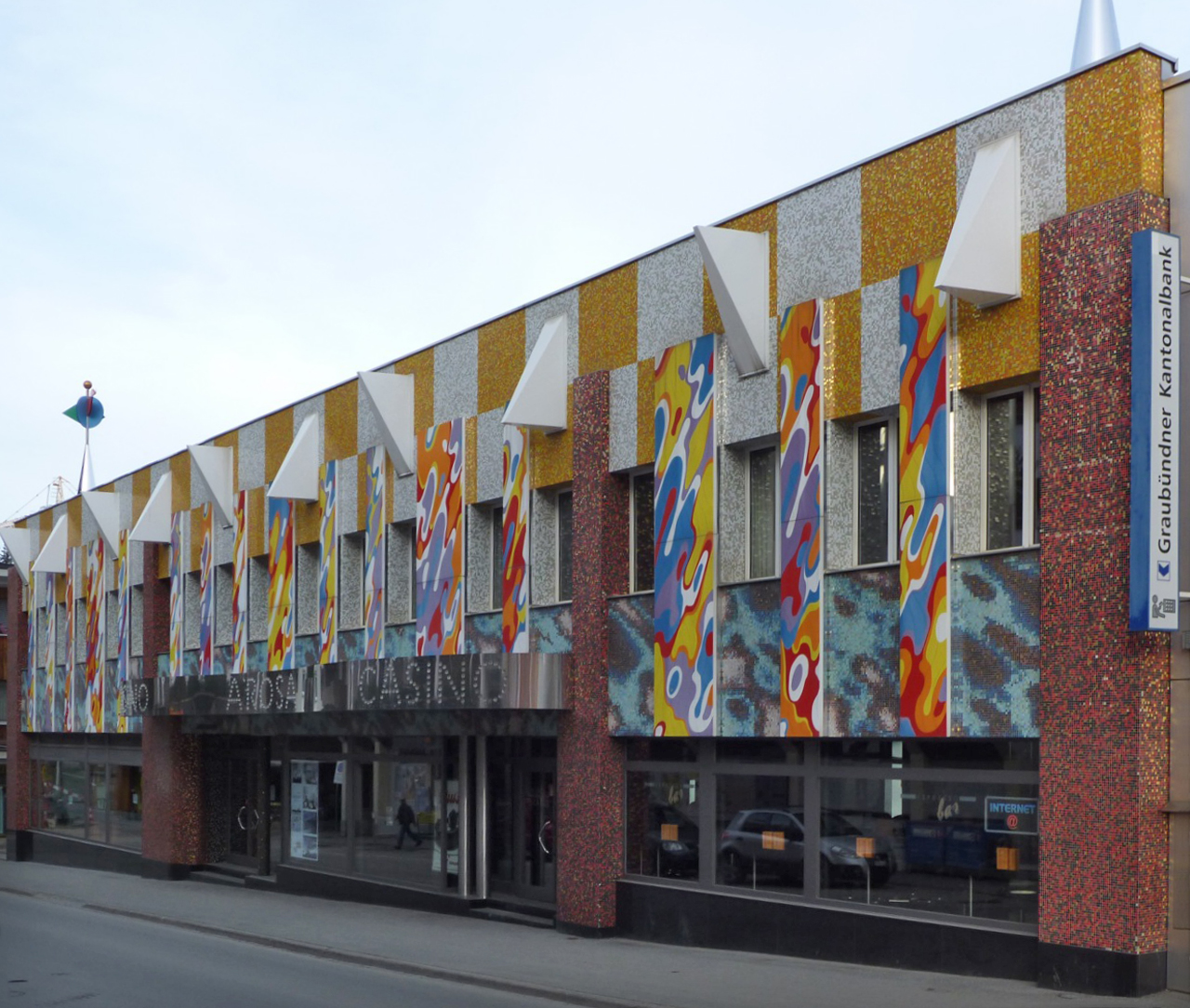 The Casino at Arosa/Switzerland